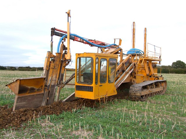 Land Drainage, East Kirkby. The trencher, as seen from the rear. As the trencher removes the soil the drainage pipe is fed into the trench. Gravel which is loaded into the rear hopper is then fed into the trench to cover the pipe. The trench is then back-filled.